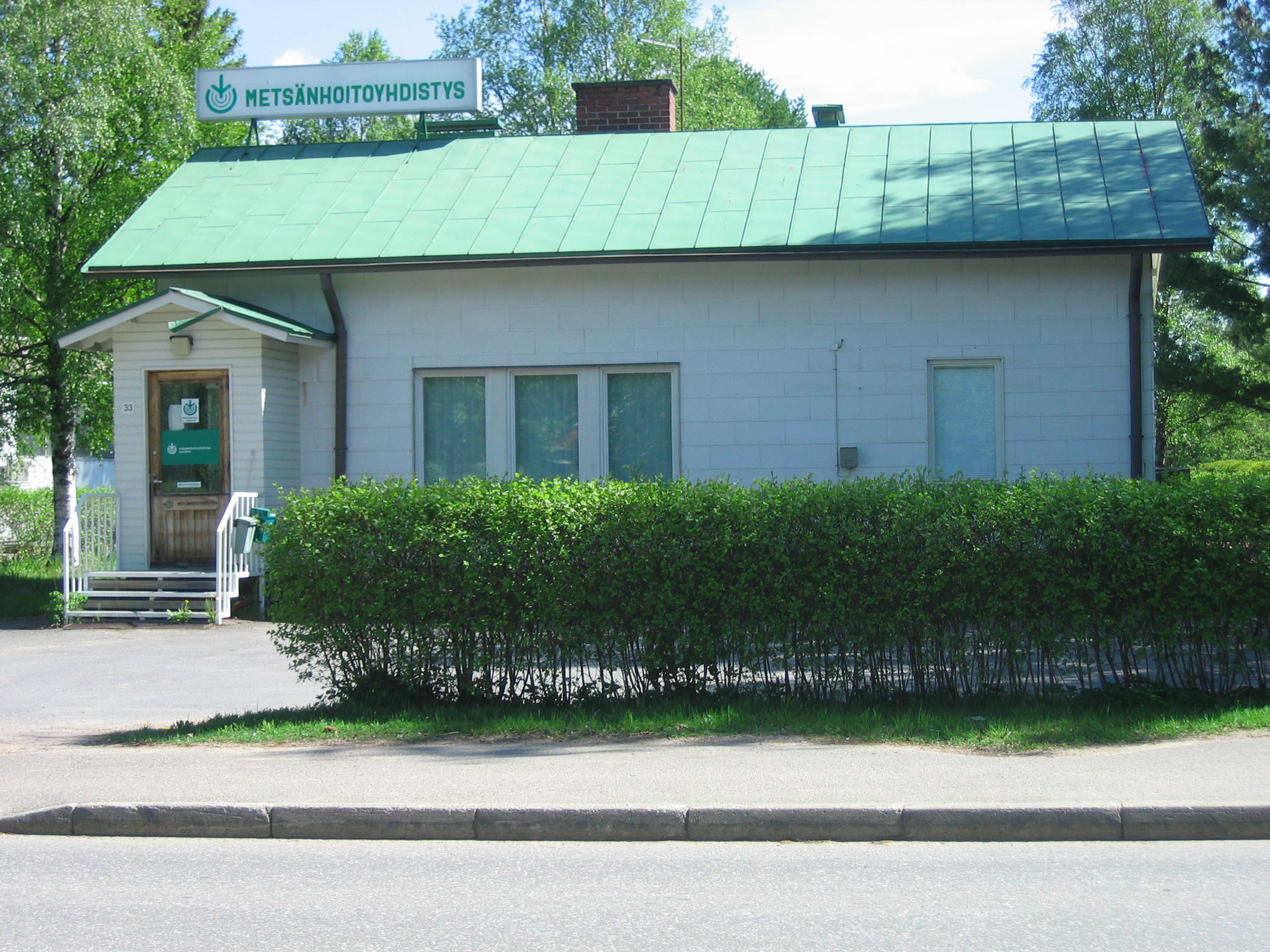 The building of the Forestry Society of Utajärvi, Finland